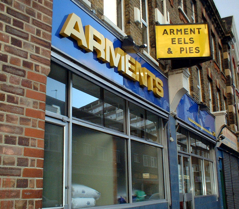 Frontage of a pie and mash shop in south London. Taken by C Ford 22nd Feb 04. Arments 7-9 Walworth, SE17 2AX